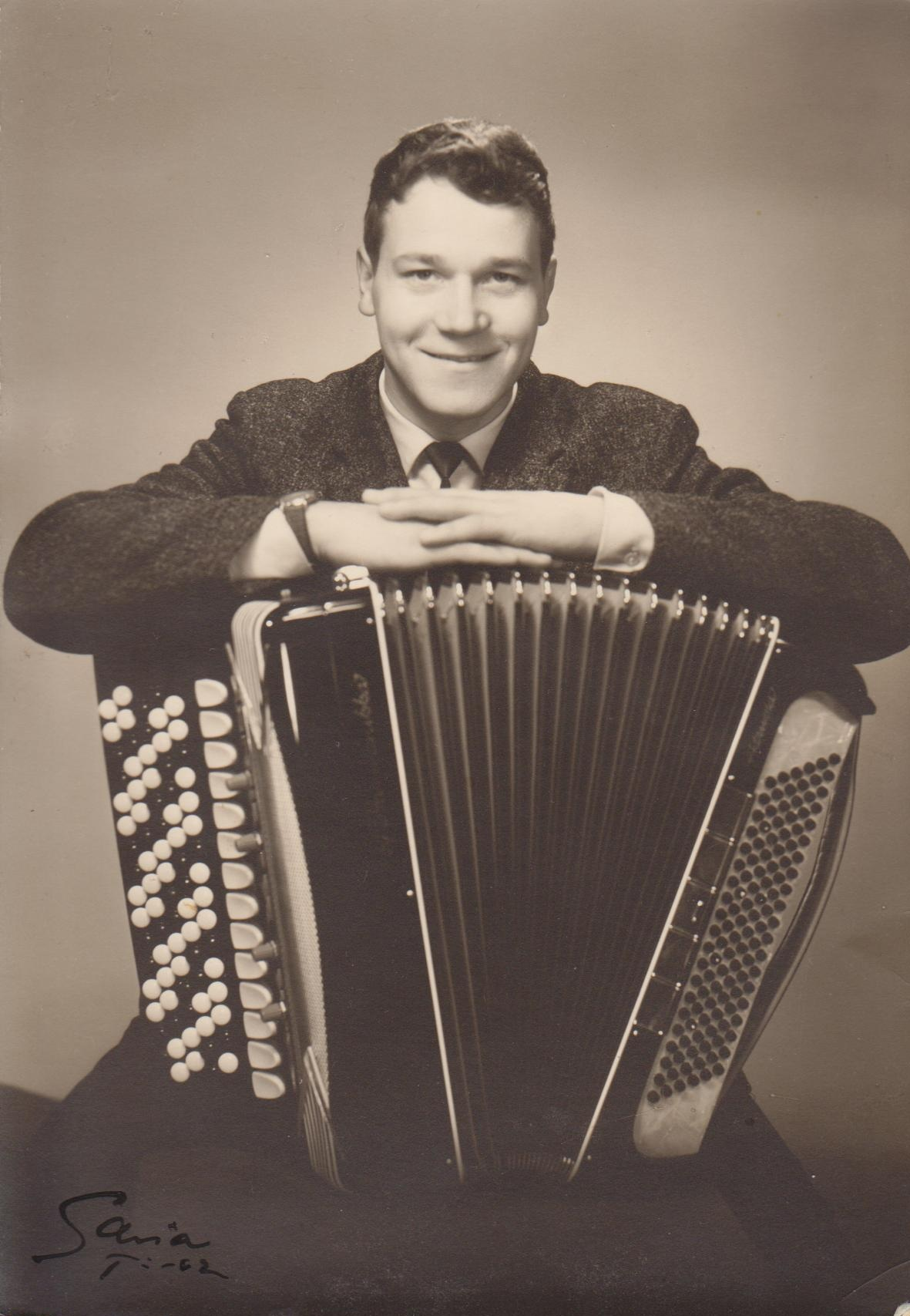 Esko Koskela Accordion